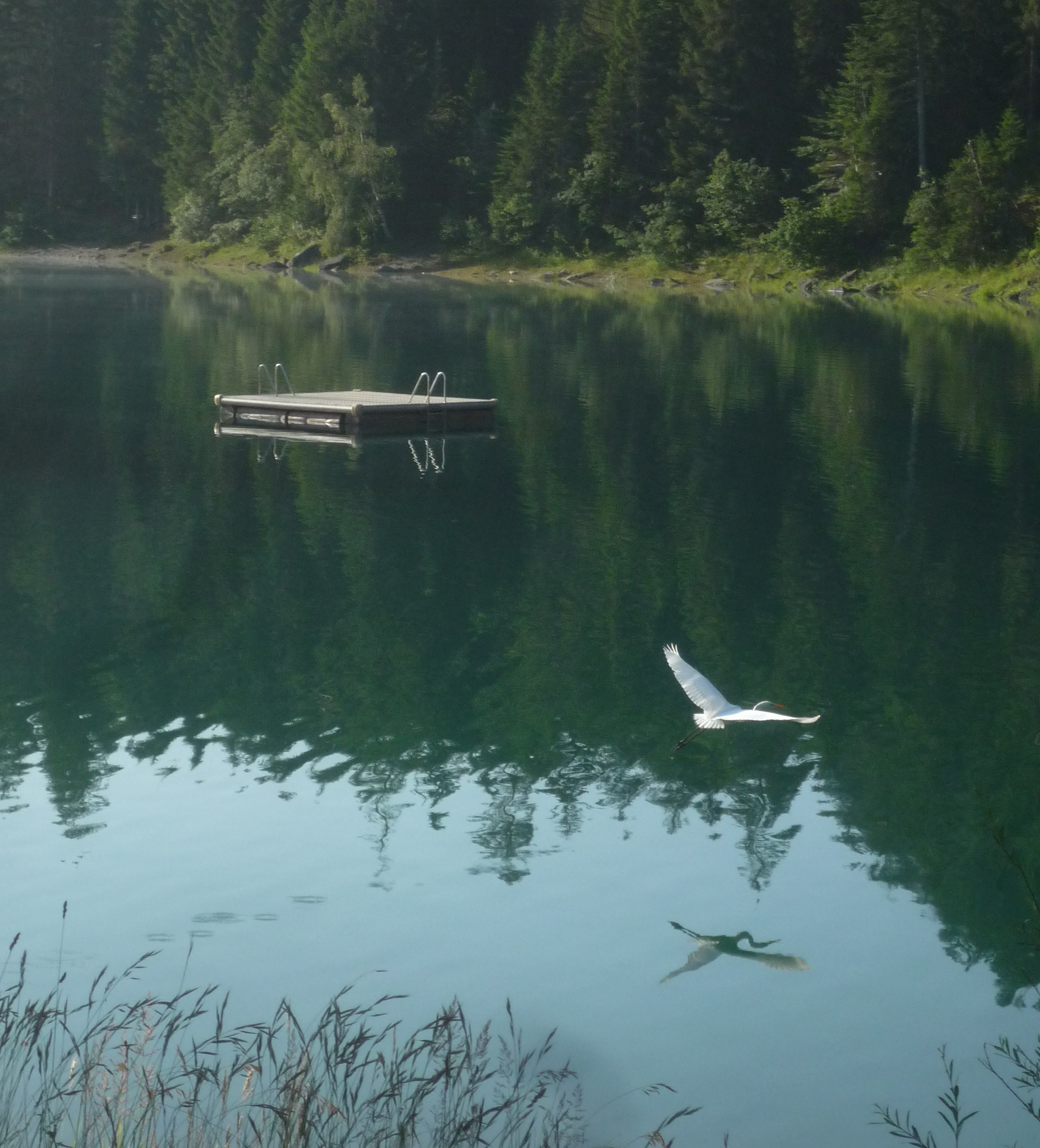 Great Egret at the Cauma Lake in Flims, Graubünden